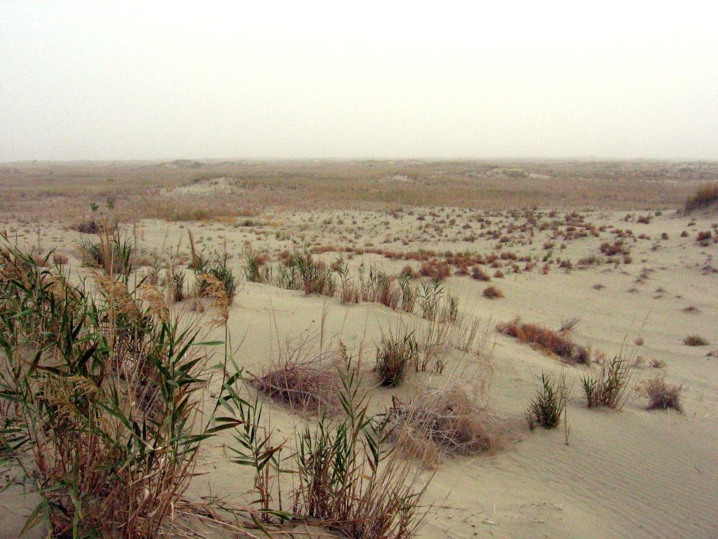 Landscape in Taklamakan desert near Yarkand, Autonomous Region of Xinjiang, China.